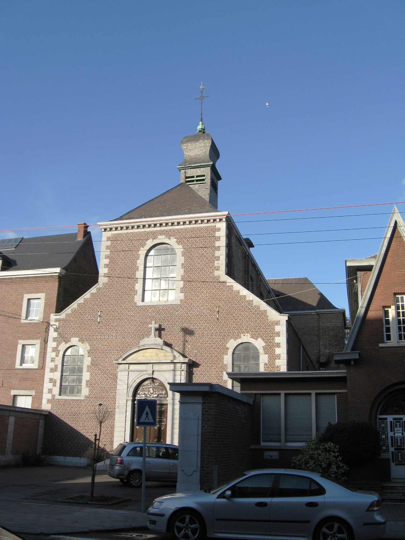 Church of Our Lady of Mount Carmel in Visé, Liège, Belgium